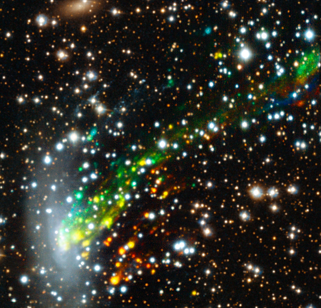 The MUSE instrument on ESO’s Very Large Telescope has provided researchers with the best view yet of a spectacular cosmic crash. Observations reveal for the first time the motion of gas as it is ripped out of the galaxy ESO 137-001 as it ploughs at high speed into a vast galaxy cluster. The results are the key to the solution of a long-standing mystery — why star formation switches off in galaxy clusters. In this picture the colours show the motions of the gas filaments — red means the material is moving away from Earth compared to the galaxy and blue that it is approaching. Note that the upper-left and lower-right parts of this picture have been filled in using the Hubble image of this object.